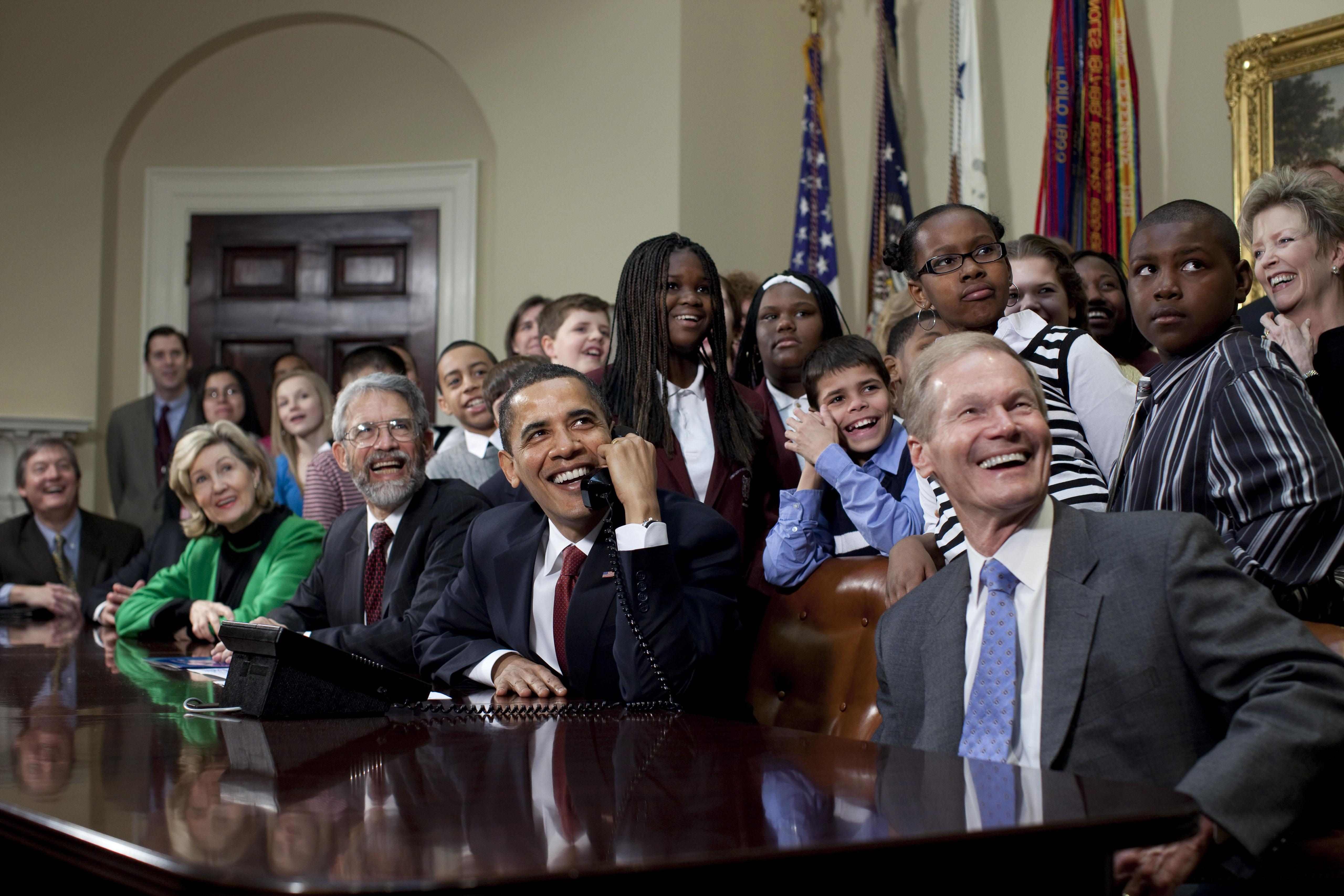 President Barack Obama is joined by members of Congress, including former astronaut Sen. Bill Nelson, right, and school children as he talks Tuesday, March 24, 2009, with astronauts on the International Space Station from the Roosevelt Room at the White House.